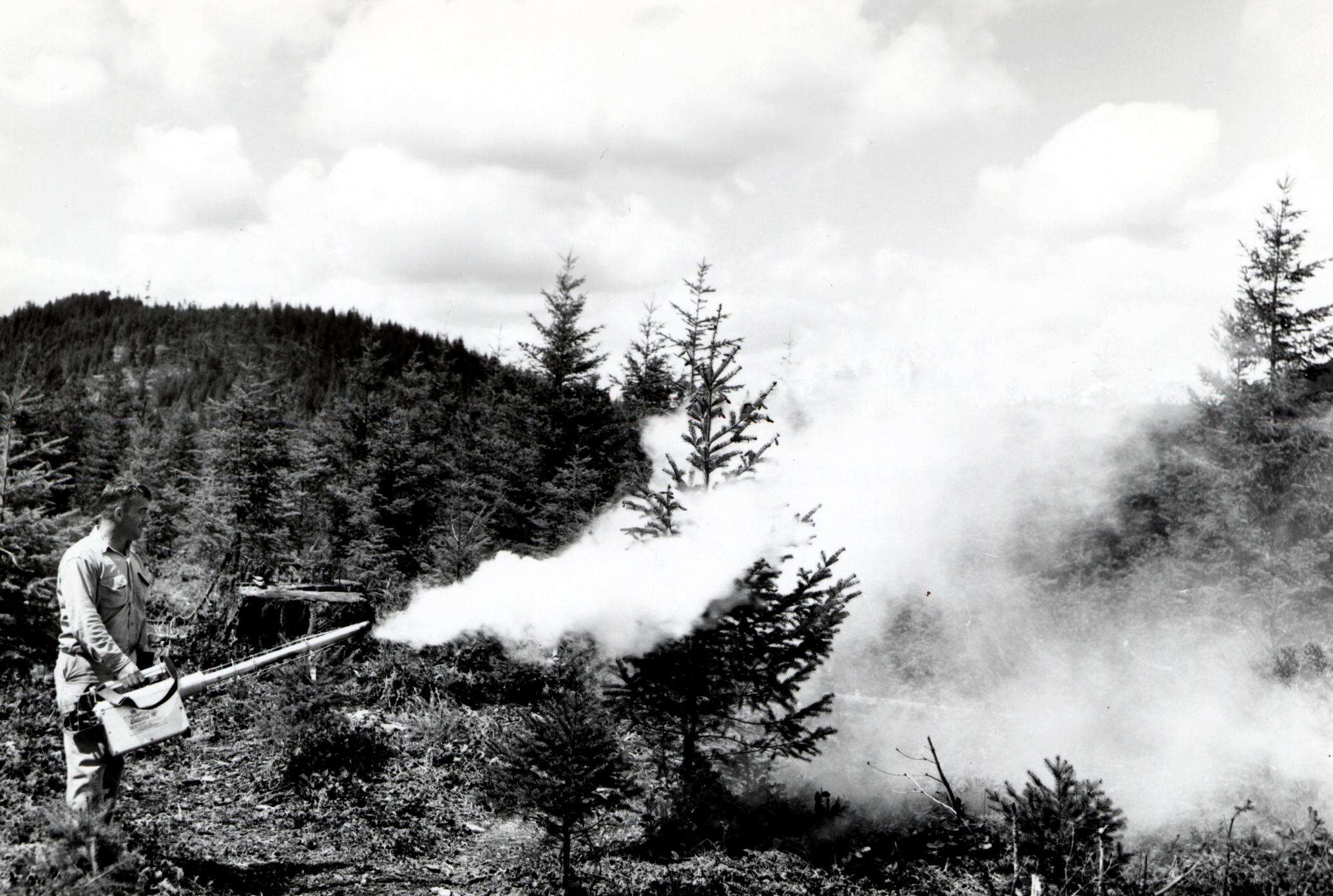 Virgil Allen testing Dynafog Model 70 fog machine used for pest control. Machine has jet engine and disseminates only oil-based materials. Shelton Ranger District, Olympic National Forest, Washington. Photo by: Ken H. Wright Date: May 4, 1962 Credit: USDA Forest Service, Pacific Northwest Region, State and Private Forestry, Forest Health Protection. Collection: Portland Station Collection; La Grande, Oregon. Image: PS-2677 To learn more about this photo collection see: Wickman, B.E., Torgersen, T.R. and Furniss, M.M. 2002. Photographic images and history of forest insect investigations on the Pacific Slope, 1903-1953. Part 2. Oregon and Washington. American Entomologist, 48(3), p. 178-185. For additional historic forest entomology photos, stories, and resources see the Western Forest Insect Work Conference site: Image provided by USDA Forest Service, Pacific Northwest Region, State and Private Forestry, Forest Health Protection